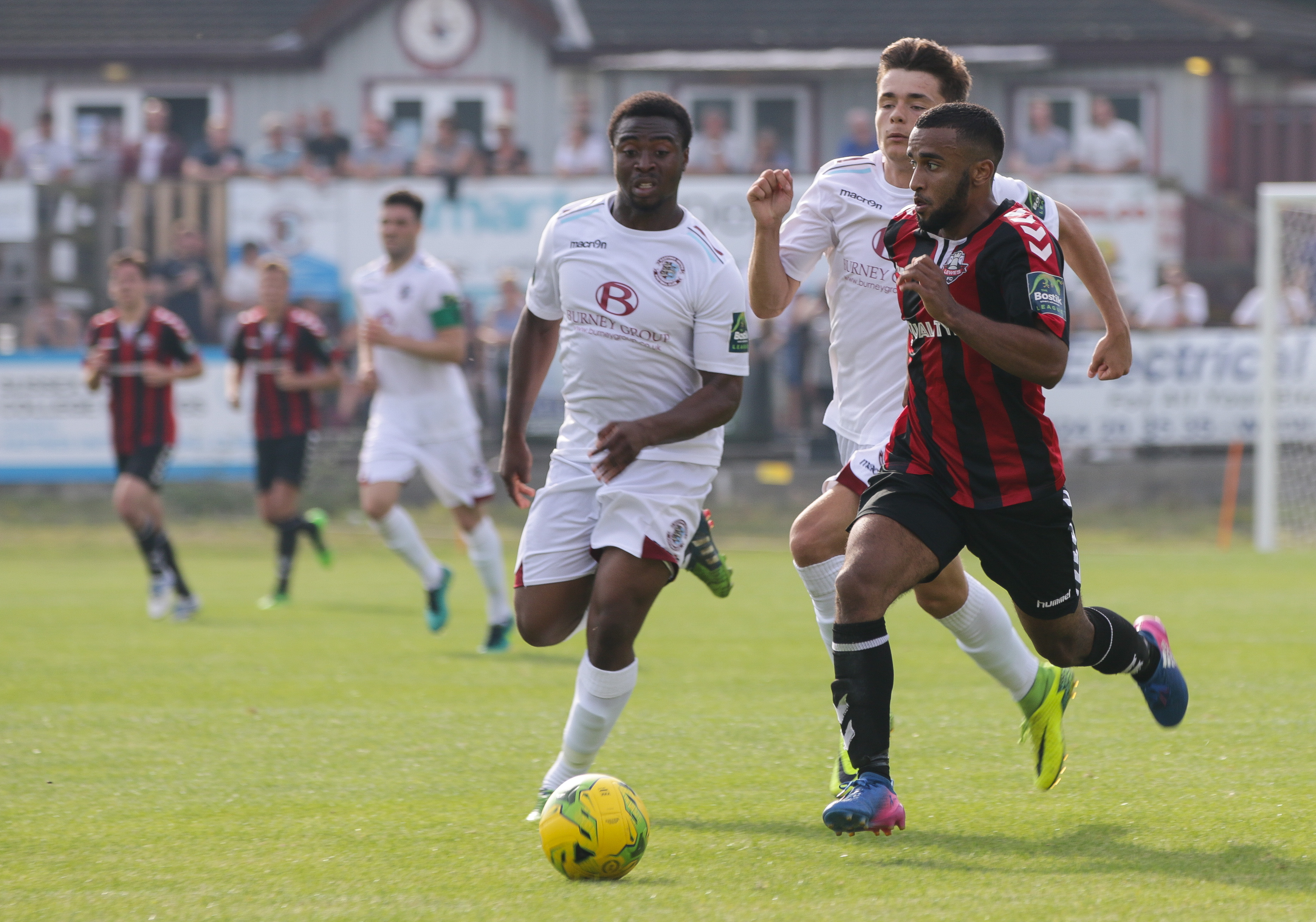 Hastings United 1 Lewes 2 28 08 2017-610.jpg